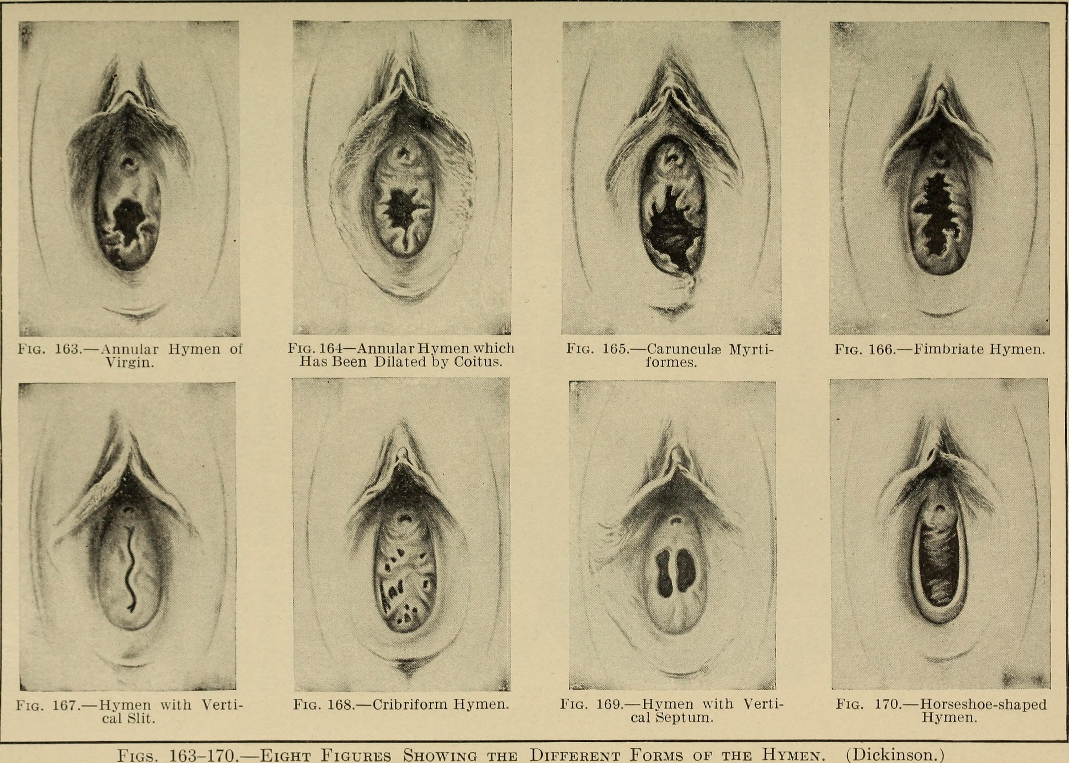 Title: Gynecological diagnosis Year: 1910 (1910s) Authors: Burrage, Walter L. (Walter Lincoln), 1860-1935 Subjects: Women Publisher: New York, London, D. Appleton and Company Text Appearing Before Image: nd itmay be so dilatable that it stretches to accommodate the penis with-out tearing. The rule is that it is generally torn by intercourse, andalways by parturition. Cysts and solid tumors of the hymen havebeen described, but they are excessively rare. Imperforate Hymen.—The opening in the hymen may be ex-tremely minute and yet pregnancy may ensue. A case has beenrecorded by H. L. Horton (Boston Med. and Surg. Jour., vol. 82,p. 33) of a patient who was in labor with a hymeneal openingmeasuring only one-sixteenth of an inch in diameter. From themost recent researches the view has gained ground that imper-forate hymen is a misnomer, the condition being one really ofatresia of the vagina, for in many of the cases recorded after theliberation of retained menses a hymen has been found outside theobstructing membrane. In other words, the lower end of the va-gina, which is a solid structure in the early stages of developmentafter the fusion of Miillers ducts and before the canal is formed, Text Appearing After Image: 397 398 DISEASES OF THE VULVA